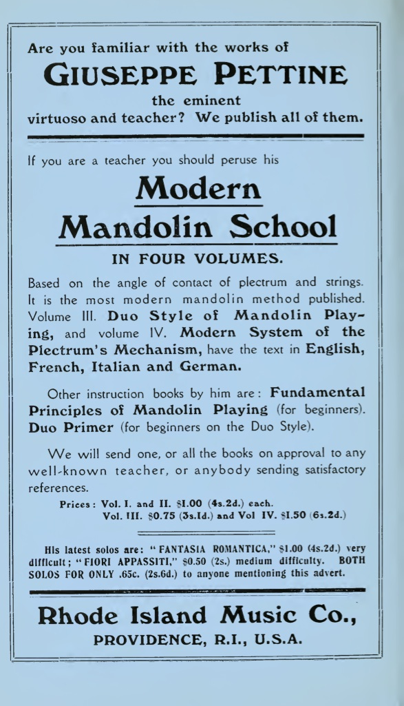 1914 advertisement by Rhodes Island Music Company for mandolin sheet music by Giuseppe Pettine, including his Modern Mandolin School (in 4 volumes containing French, German, Italian and English). Volume III, Duo style of Mandolin Playing. Volume IV Modern System of the Plectrum's Mechanism. Also advertised was Fundamental Principles of Mandolin Playing (for beginners) and Duo Primer (for beginners in the duo style).